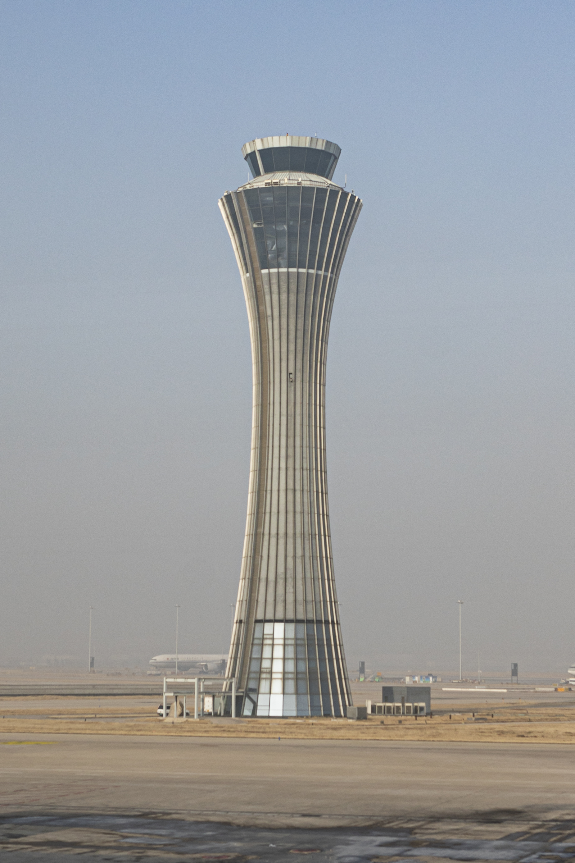 Terminal 3 Station - Beijing Capital Airport